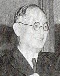 Shigemitsu Mamoru